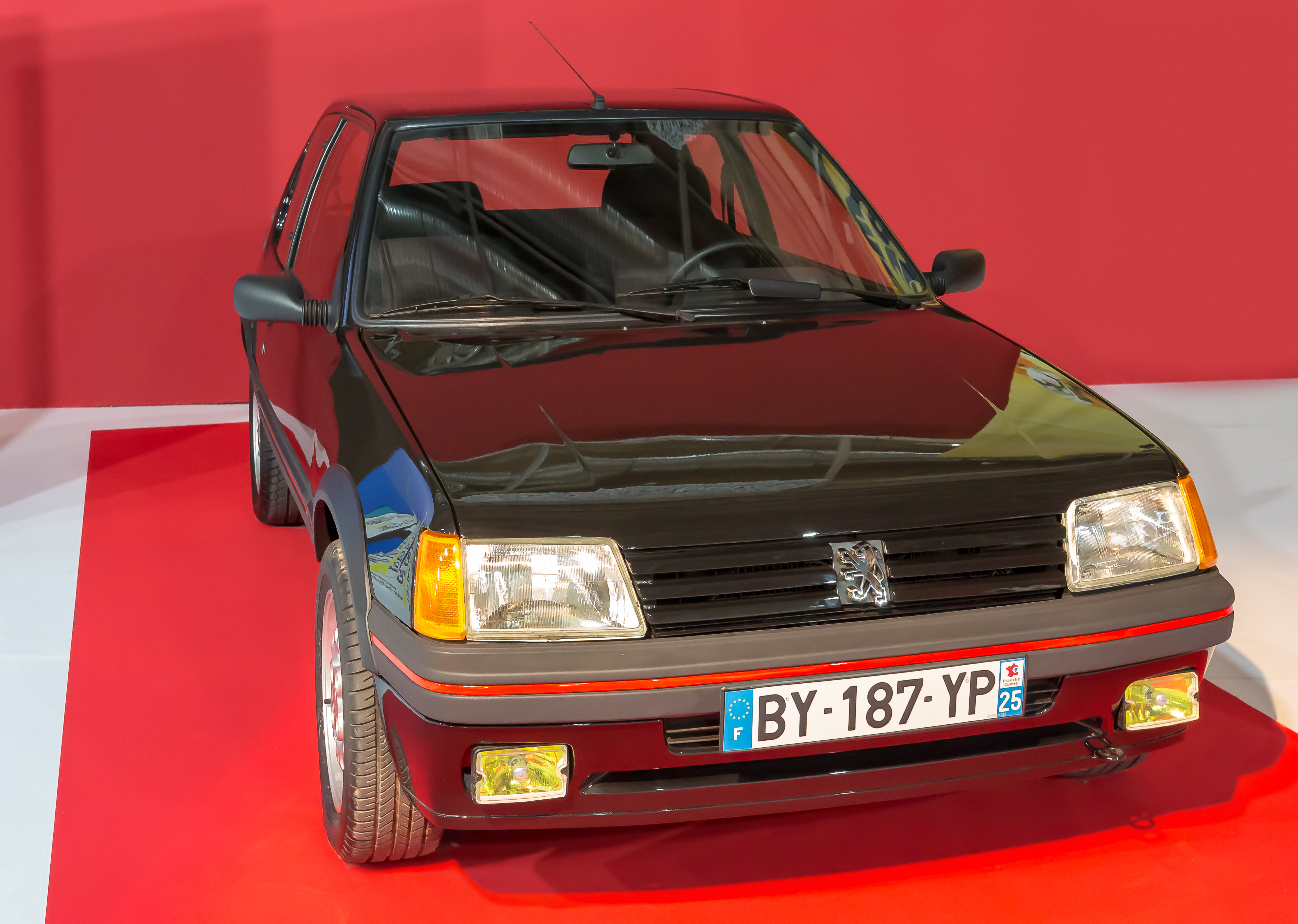 Peugeot 205 GTI, Mondial Paris Motor Show 2018